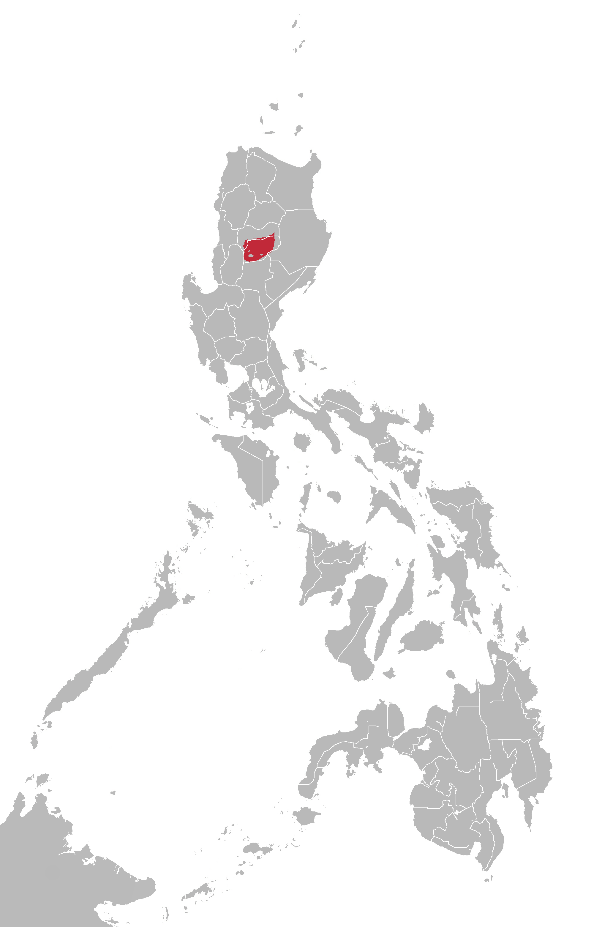 Ifugao dialect cluster map based on Ethnologue maps